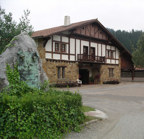 Euskal baserriaren ekomuseoa